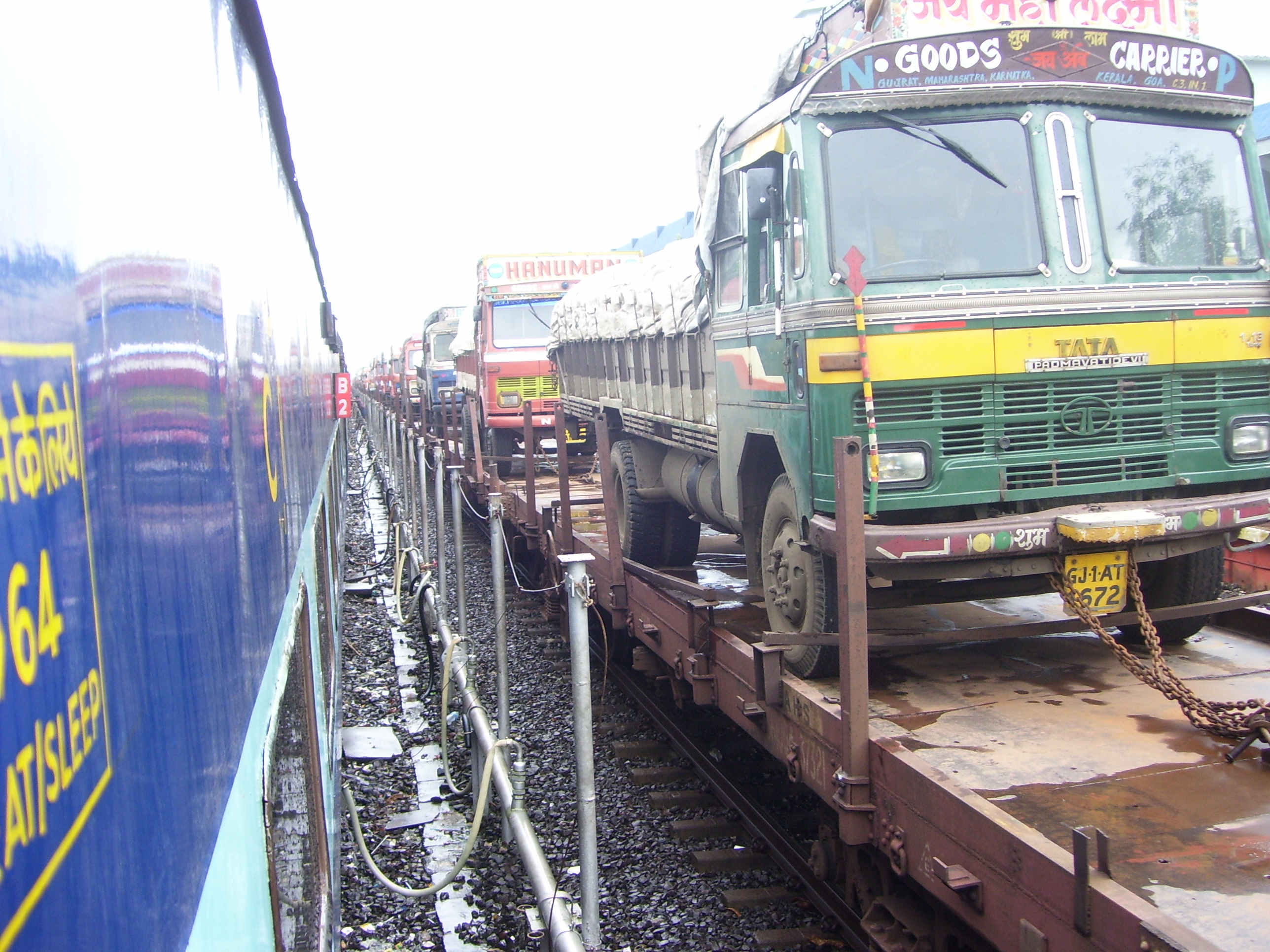 Trucks on train .RORO services offered by Konkan railway